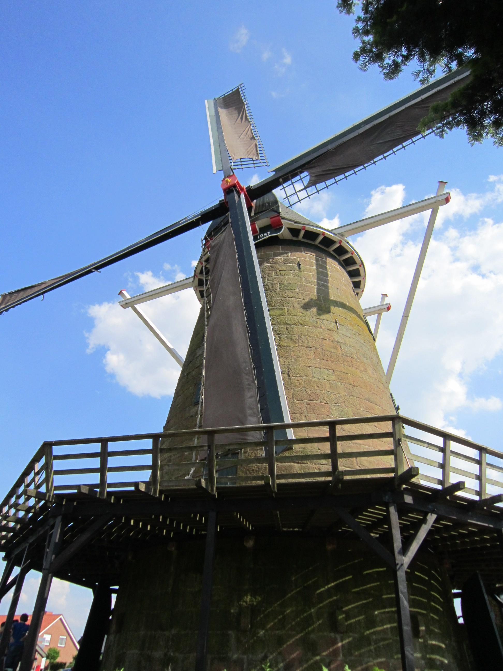 Windmill in Veldhausen (Neuenhaus, Landkreis Graftschaft Bentheim, Lower Saxony)